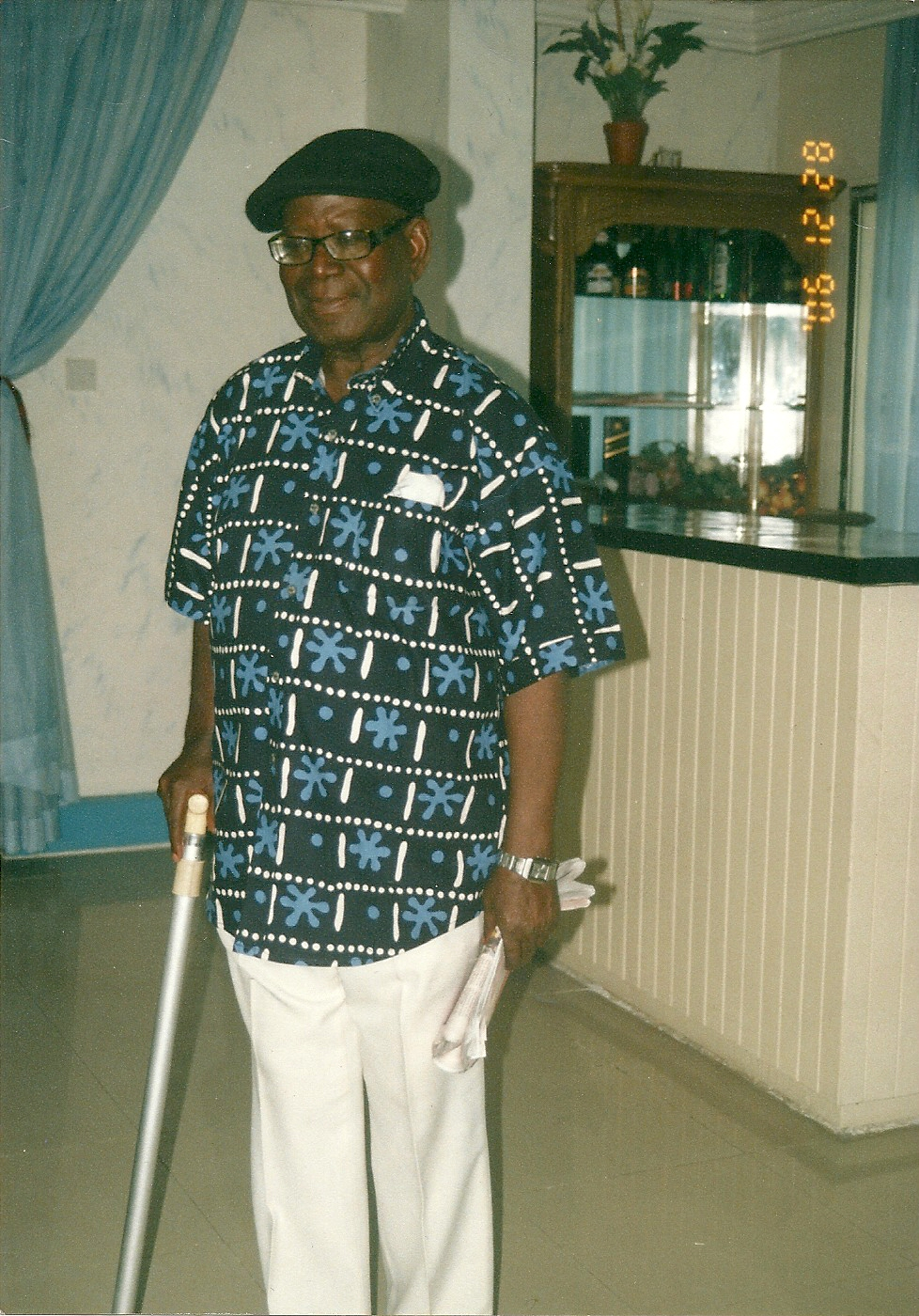 Photograph